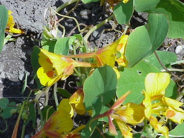 Species: Tropaeolum minus Family: Tropaeolaceae Image No. 5